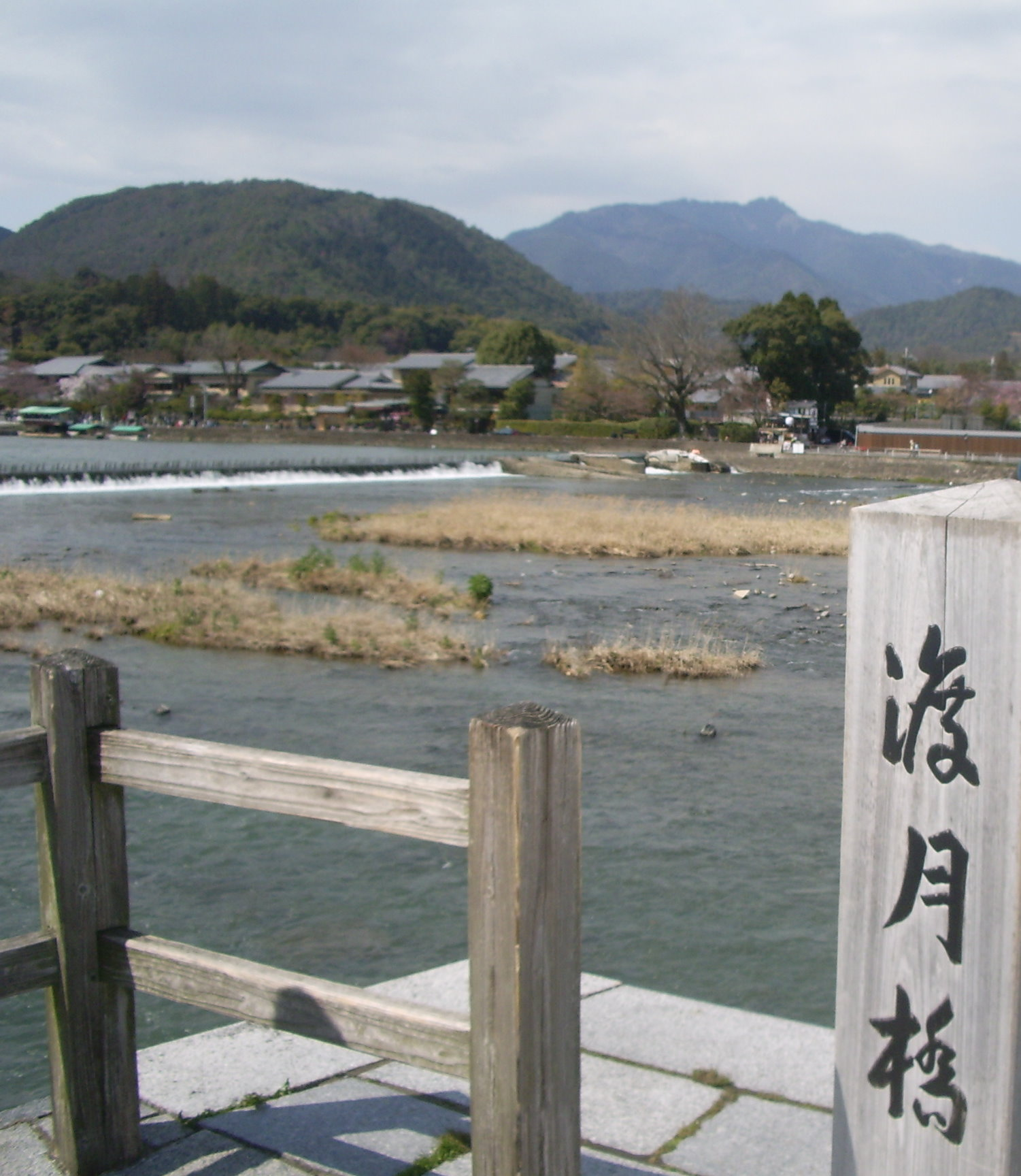 let people know about Dogetsukyoo